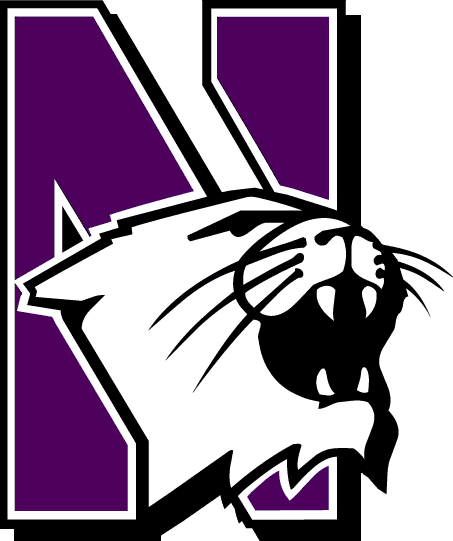 Athletics logo for Northwestern University.